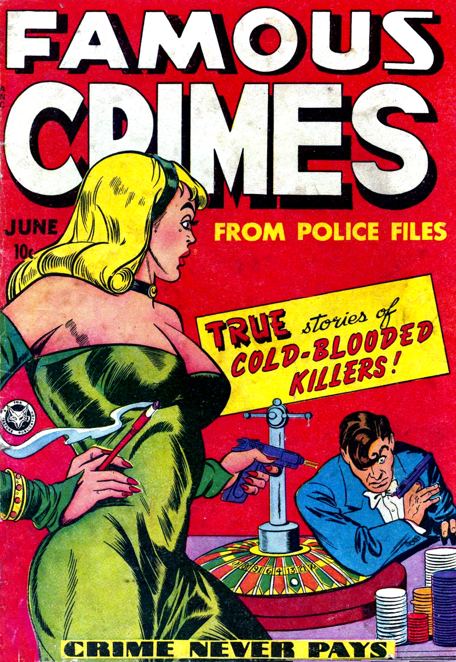 Cover scan of a Famous Crimes 1, 1948, Fox Features Syndicate